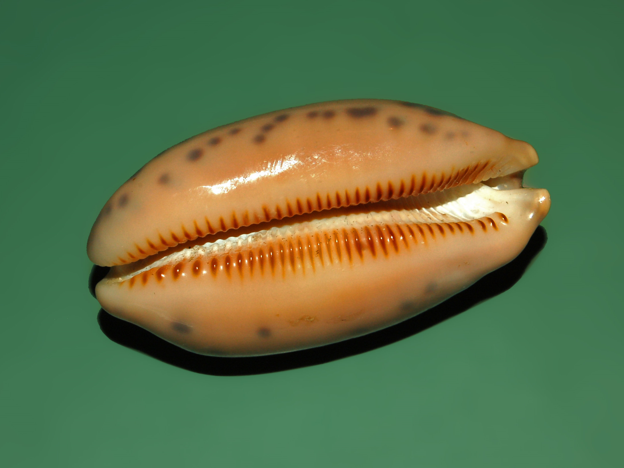 Mauritia scurra (Gmelin, 1791) - Philippines